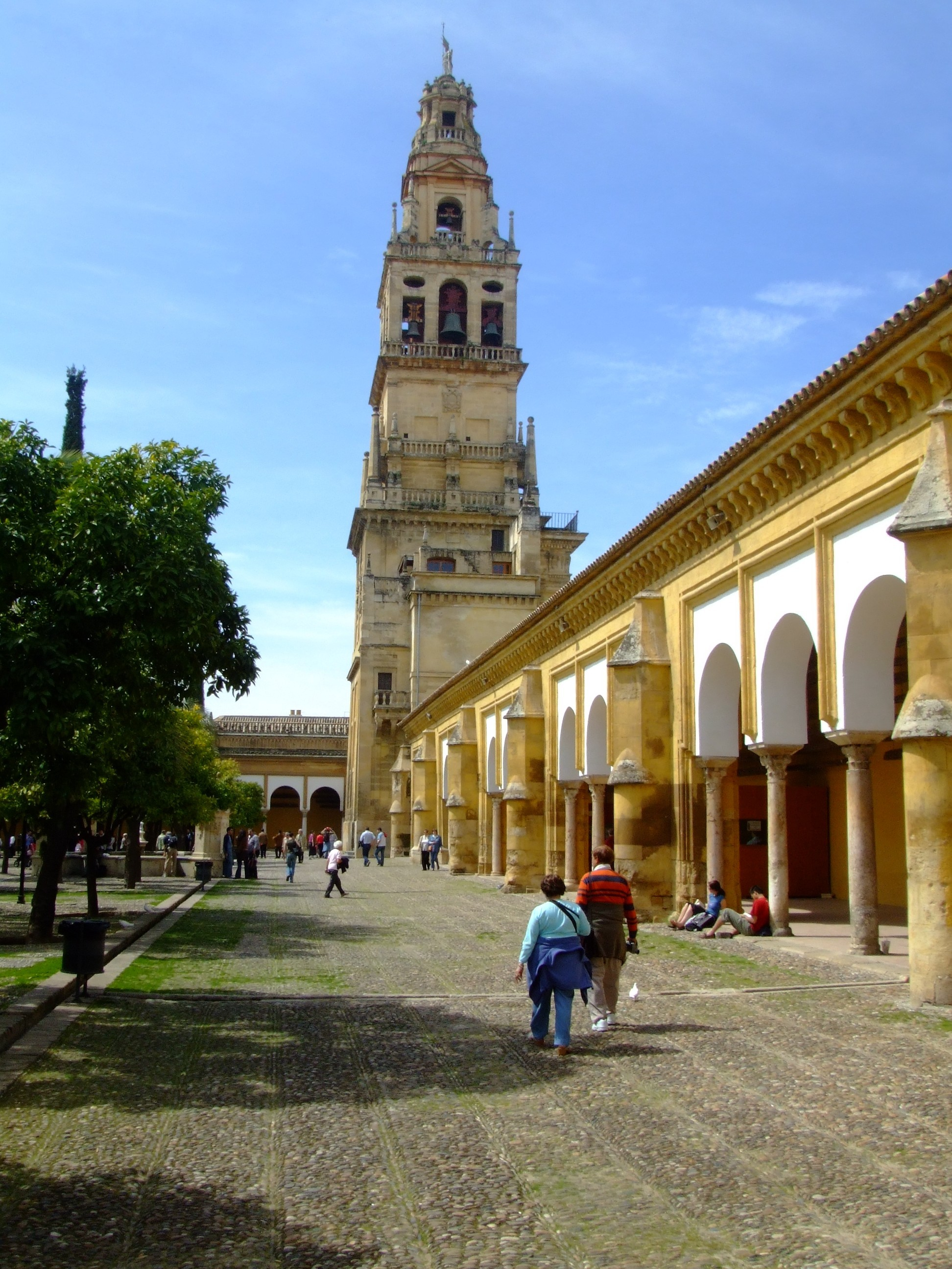 The Mezquita, Córdoba, Spain. by Ian Pitchford